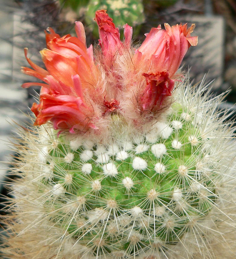 Photo of Parodia nivosus at the University of California Botanical Garden